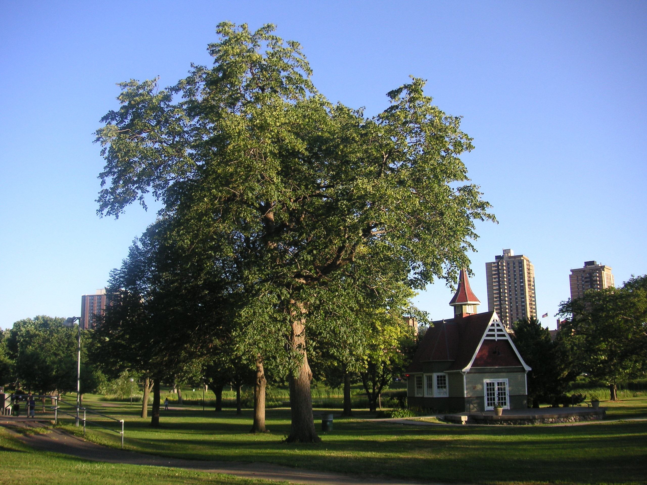 Loring Park, Minneapolis, Minnesota